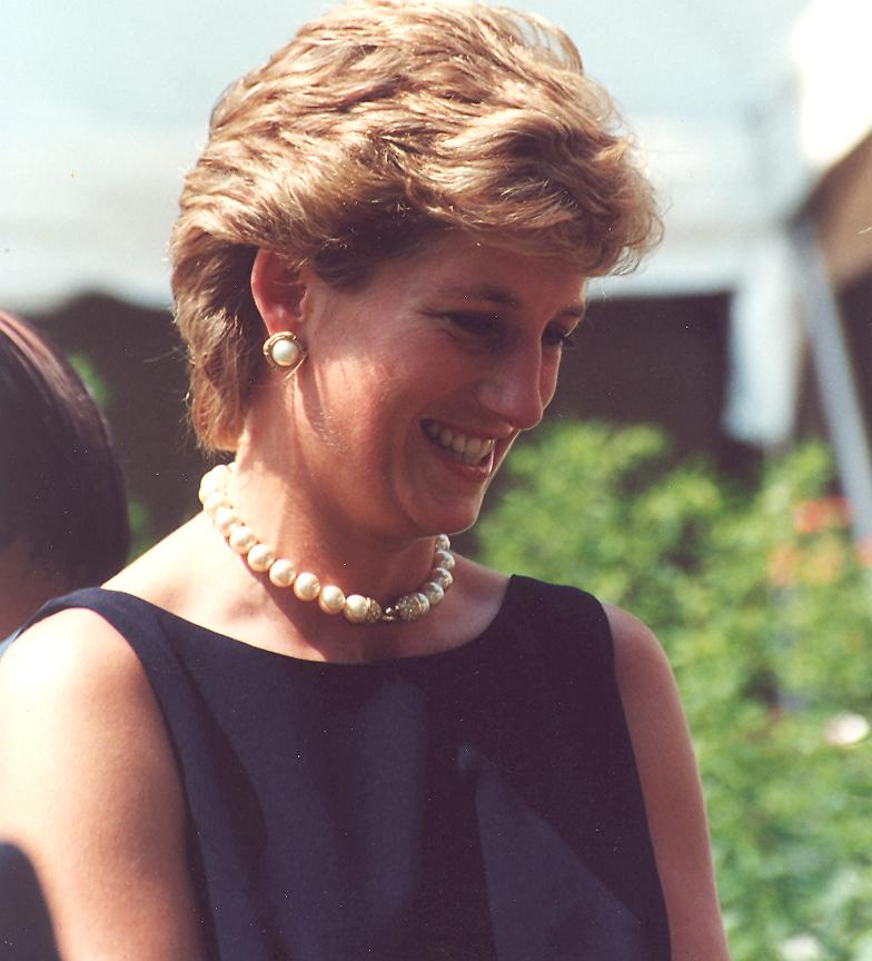 The Leonardo Prize